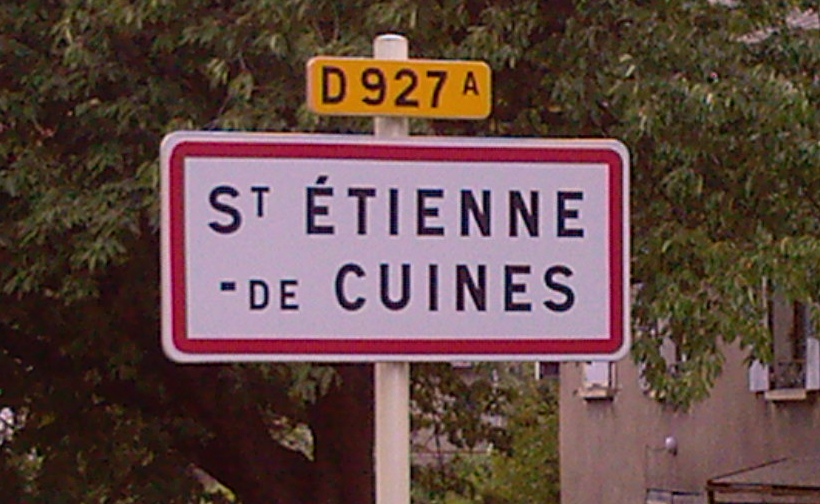 Saint Étienne de Cuines.